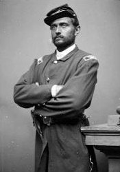 photograph over 130 years old; original in hands of U.S.A.M.H.I., Carisle Barracks, Pennsylvania